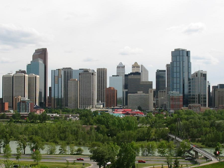 Downtown Calgary